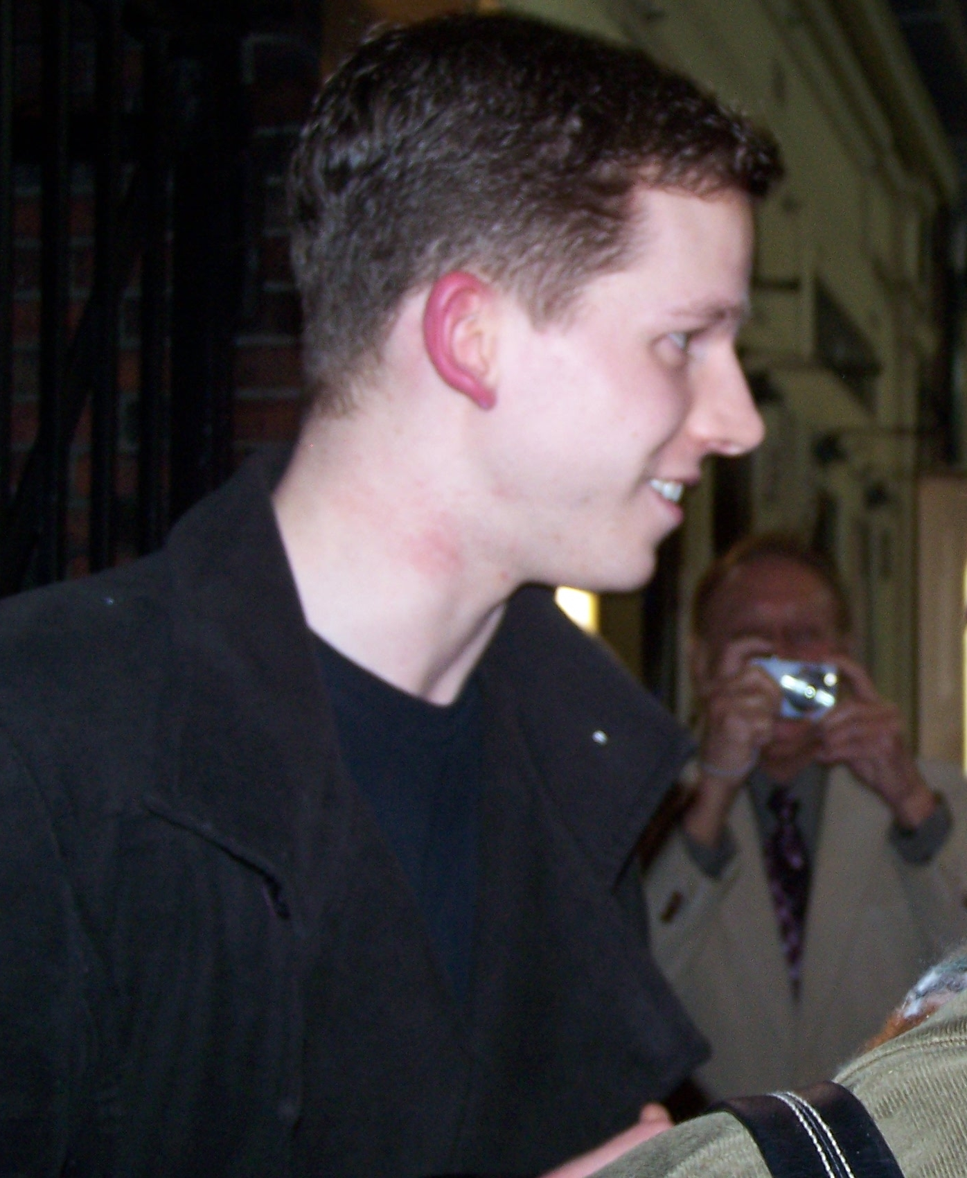 American actor Stark Sands.